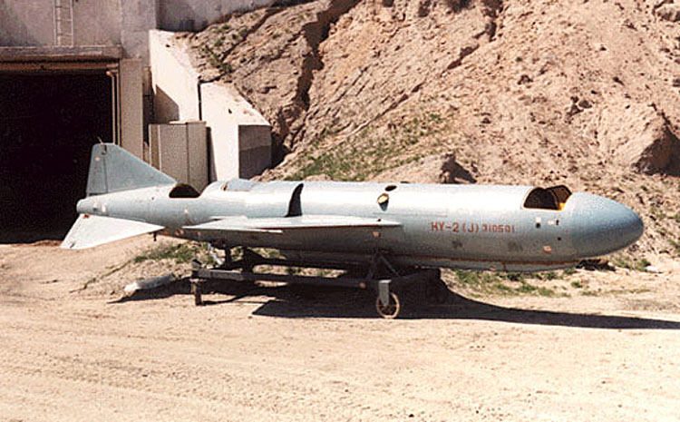 ... silkworm HY-2 missile picture from US .mil site, converted to JPEG I haven't cropped this very much, in retrospect maybe i should have. But i thought the background was cool.